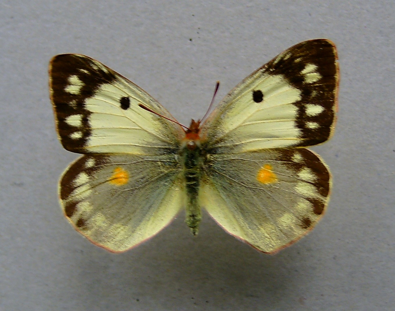 Colias croceus female forma helice